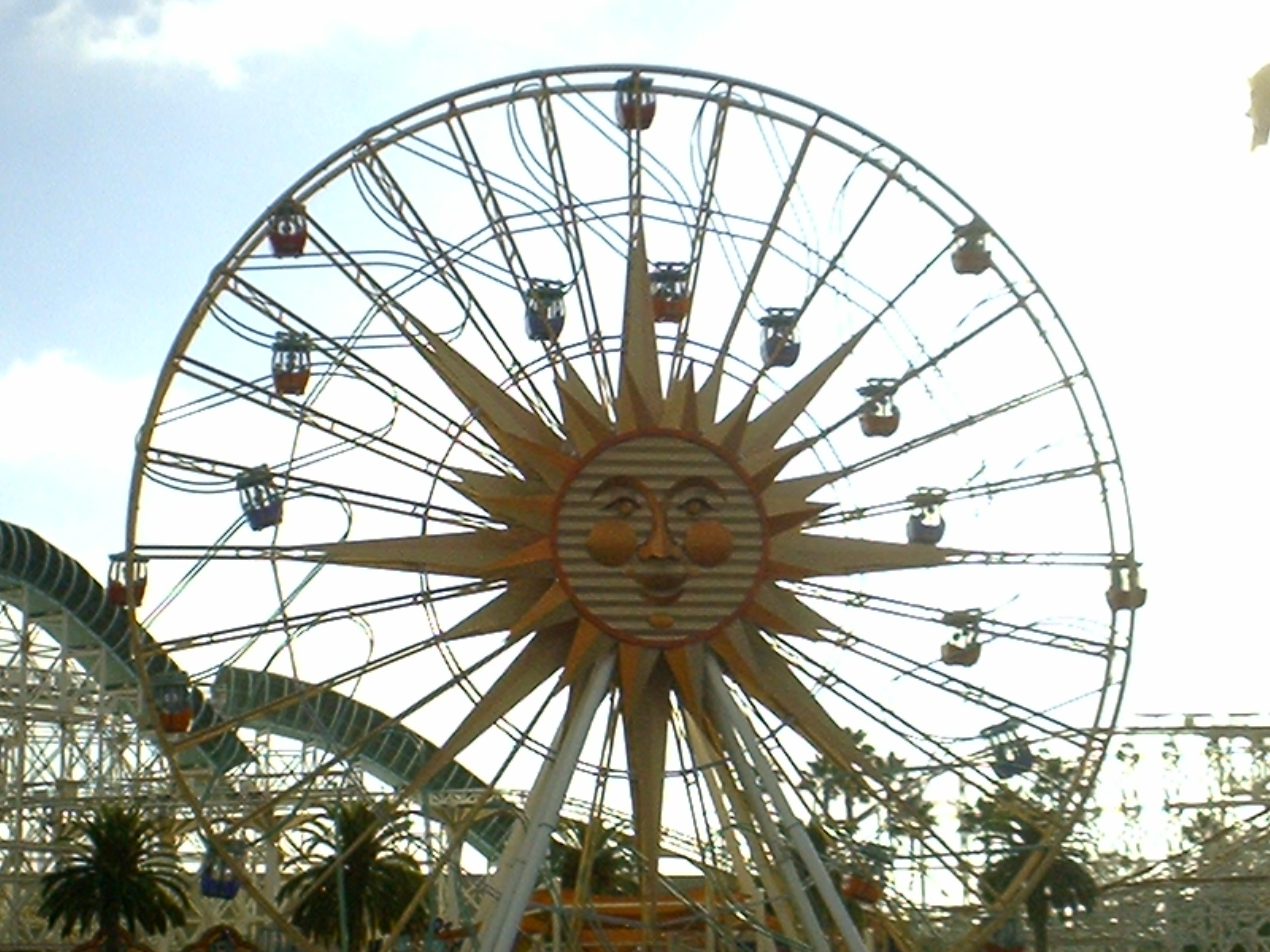 Sun Wheel by day. Taken from Image:P1010678.JPG